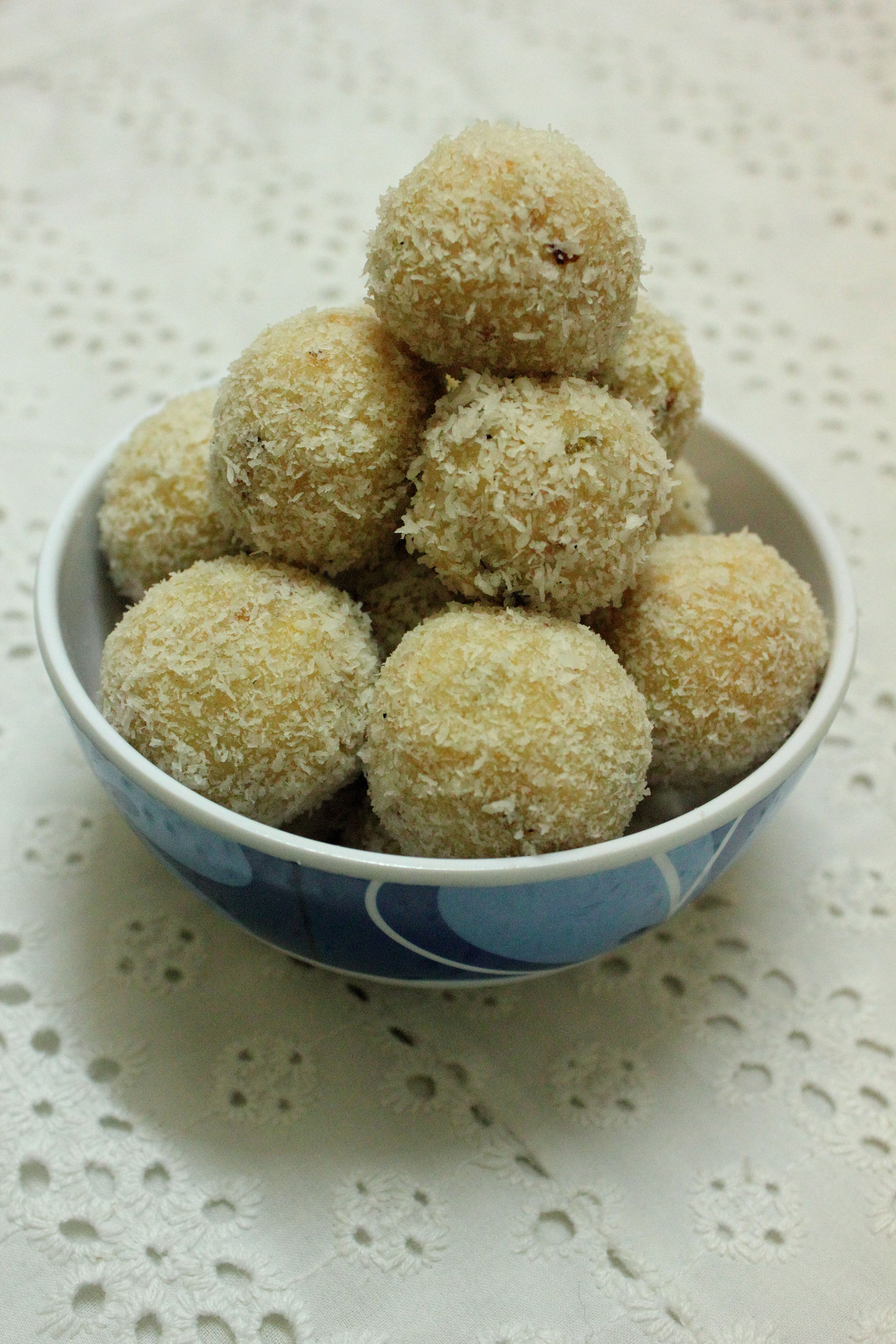 Coconut Ladoo, one of several dozen types of Ladoo made by Indian households and shops. Ladoo/Laddu are spherical, burfis are flat squares. Each has different ingredients, texture, flavors.